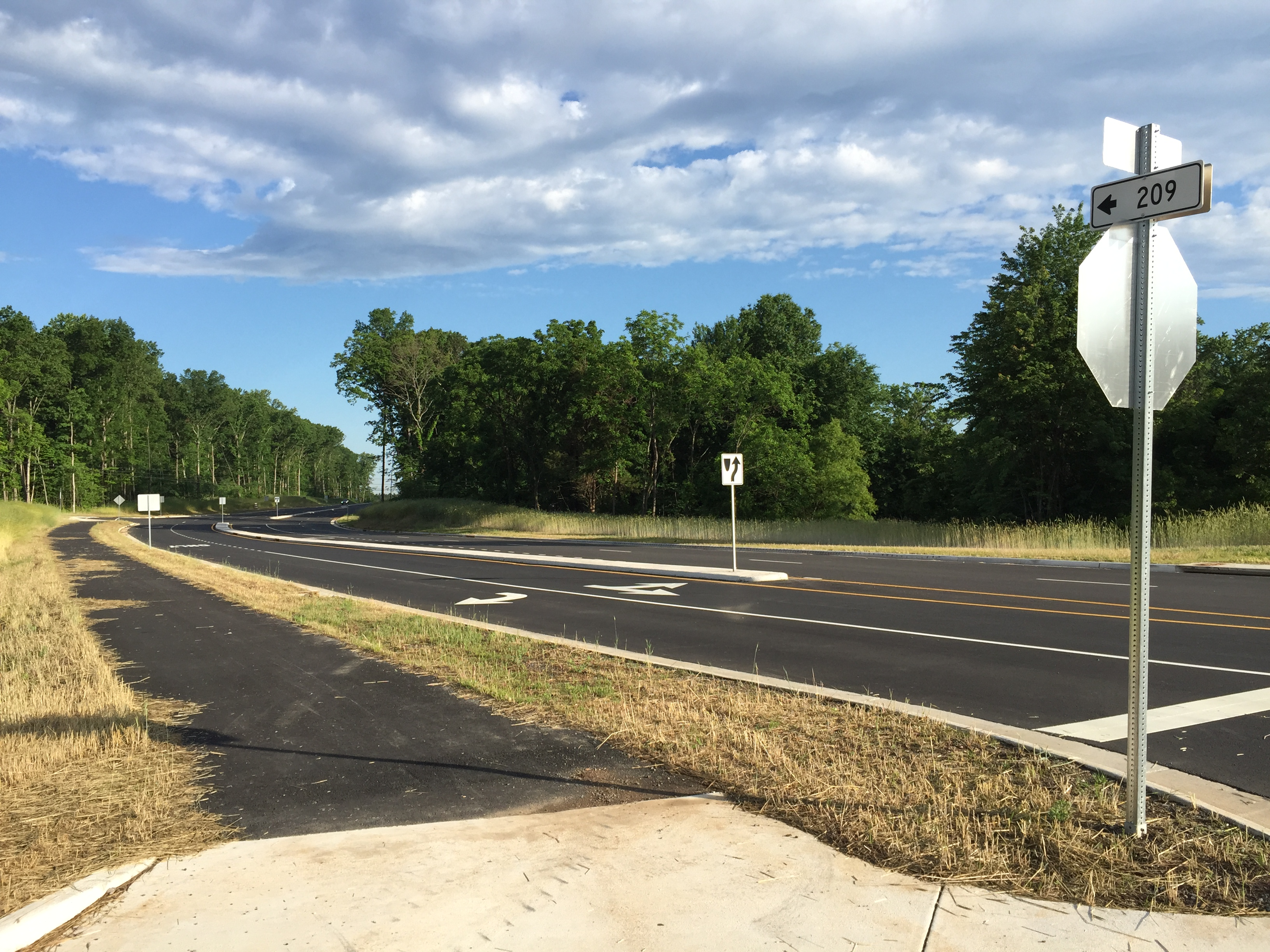 View west at the east end of Virginia State Route 209 (Innovation Avenue) at Rock Hill Road, just west of Herndon in Fairfax County, Virginia